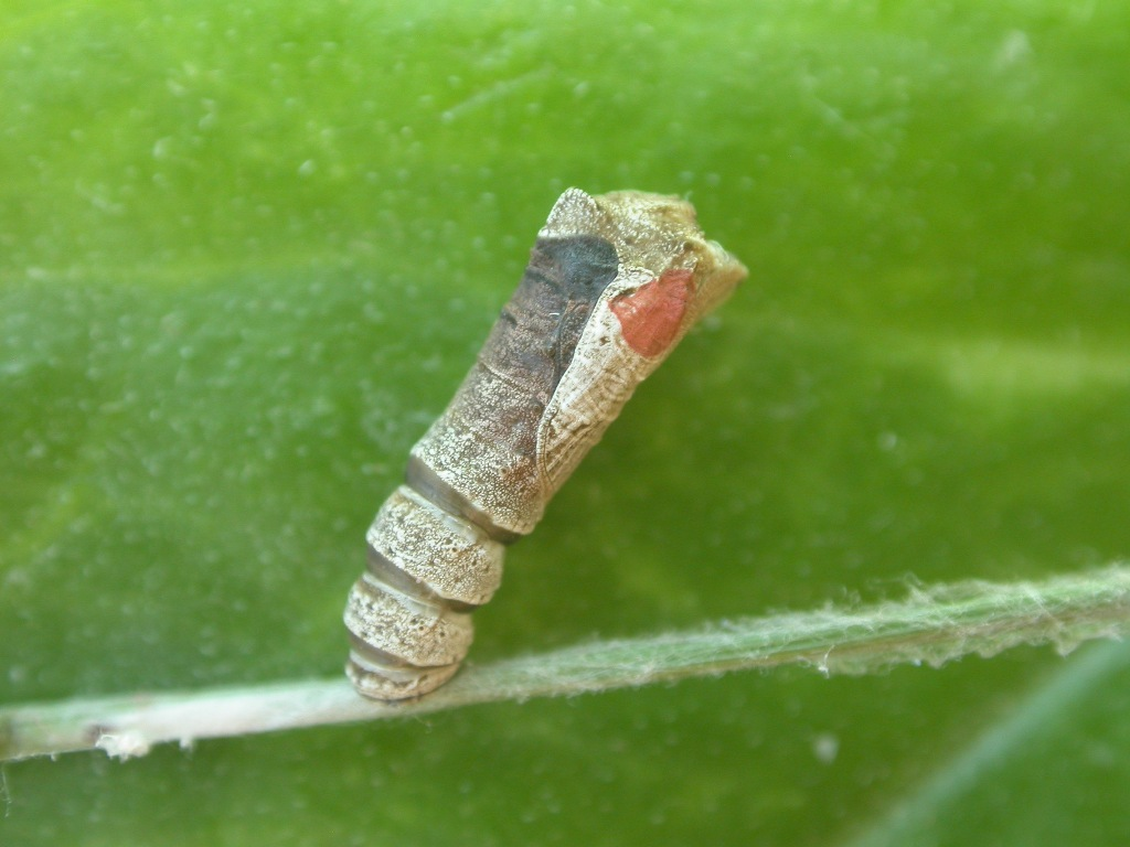 Hypertropha chlaenota puppa